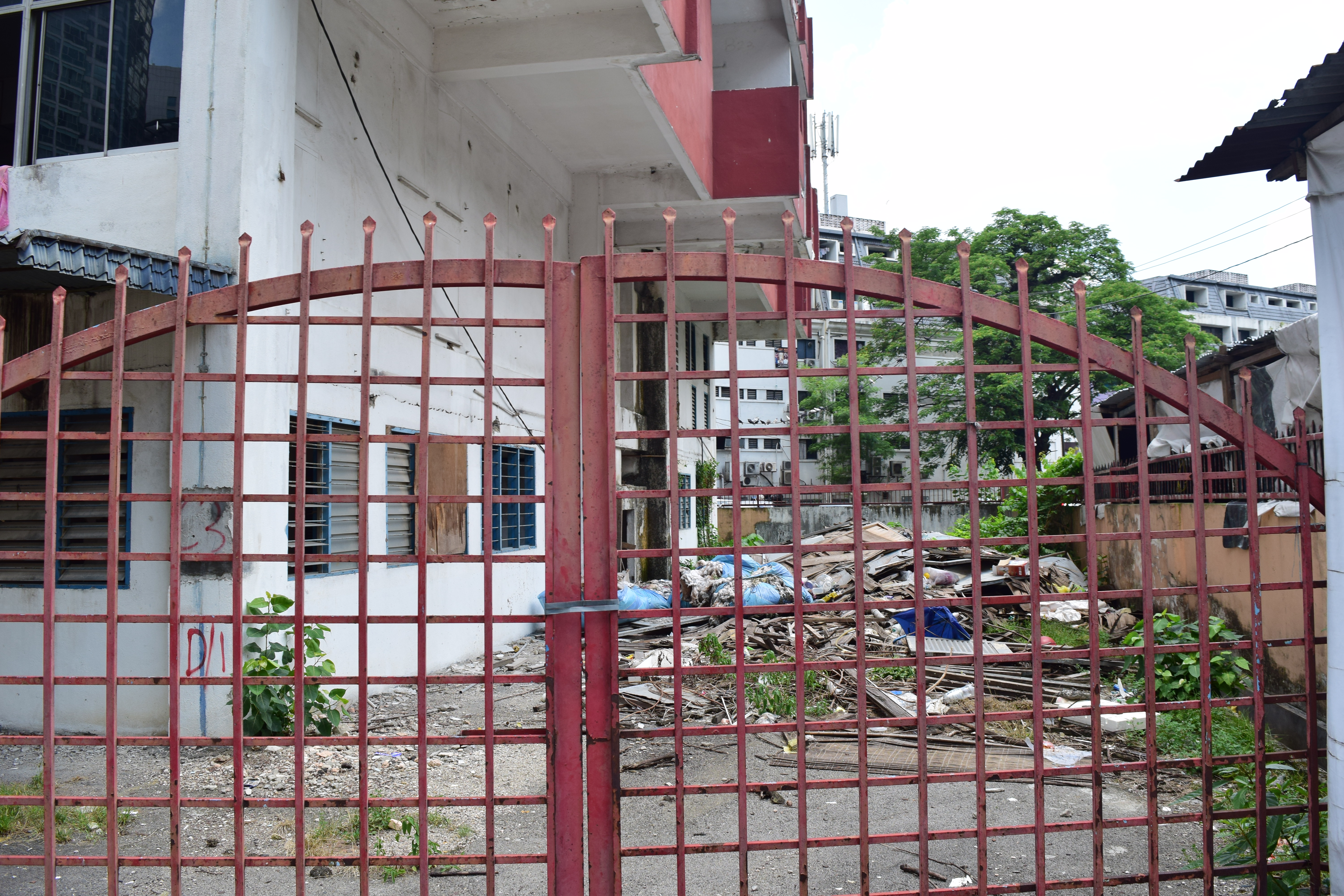 Flat is currently abandoned